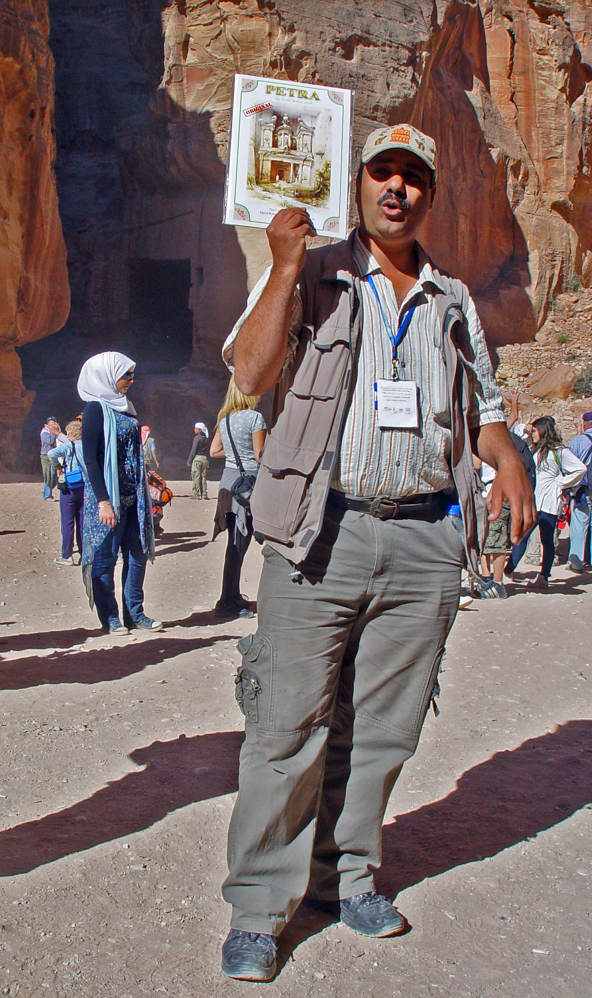 A tour guide in Petra (Jordan)